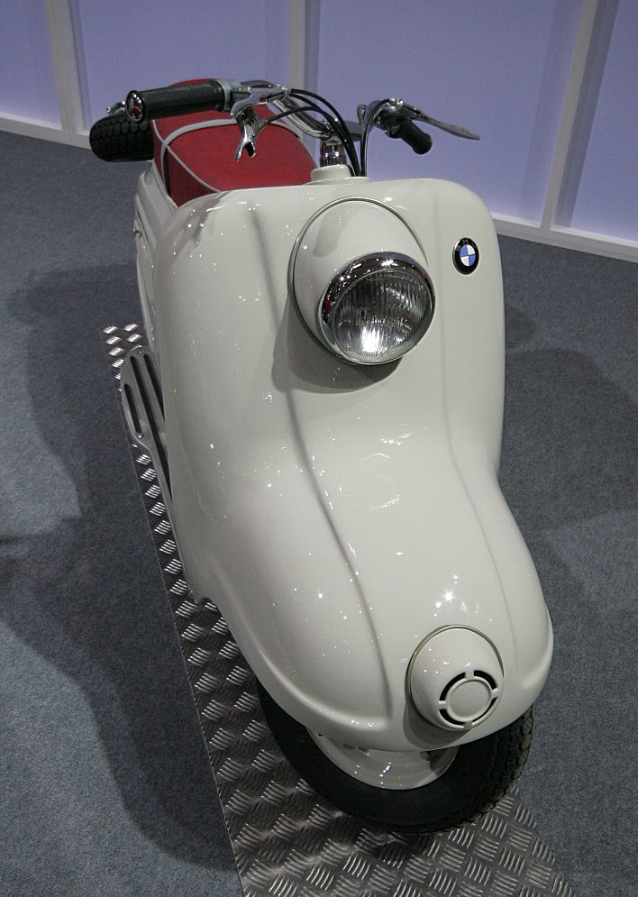 BMW R 10 Scooter Prototype, 1-cyl, 197 ccm, 7 PS, 1954